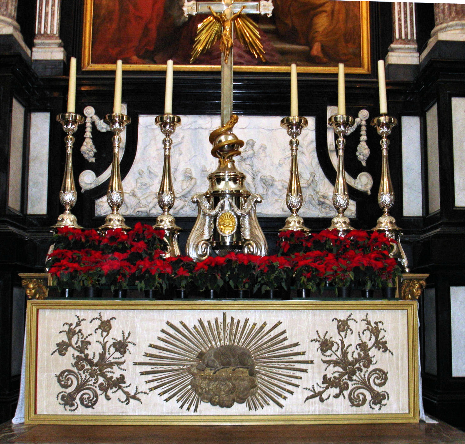 own picture taken today,Carolus 19:17, 4 January 2007 (UTC)